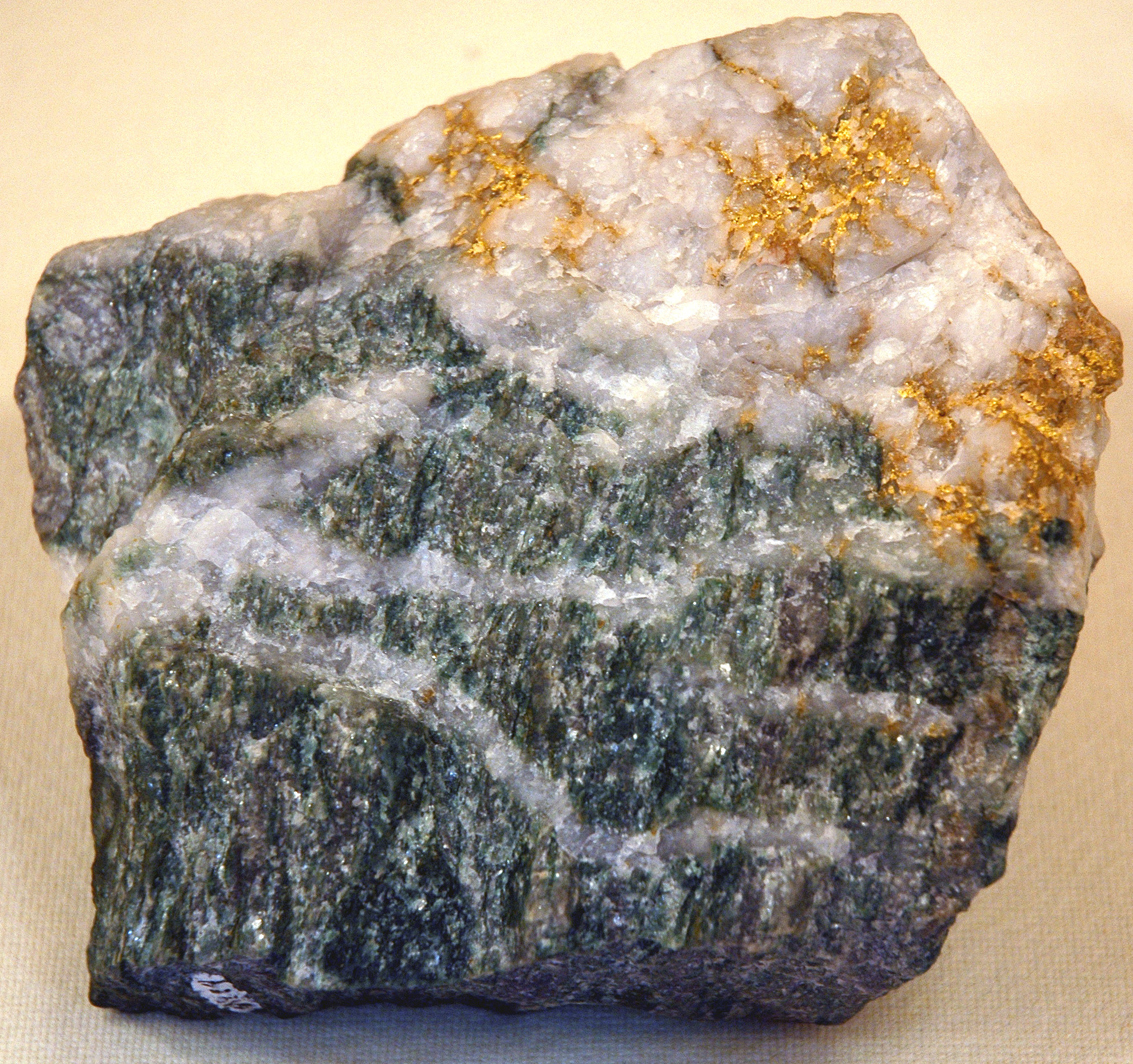 Larder Lake Gold Ore (2.1 cm across) with auriferous quartz hydrothermal vein in Archean-aged, fuchsite-rich metamorphic rock. Fuchsite is a greenish, chromian mica. Locality: Chesterville Mine, Larder Lake Mining District, Ontario, Canada. Specimen owned by Ohio State University's Geology Department (Columbus, Ohio, USA).